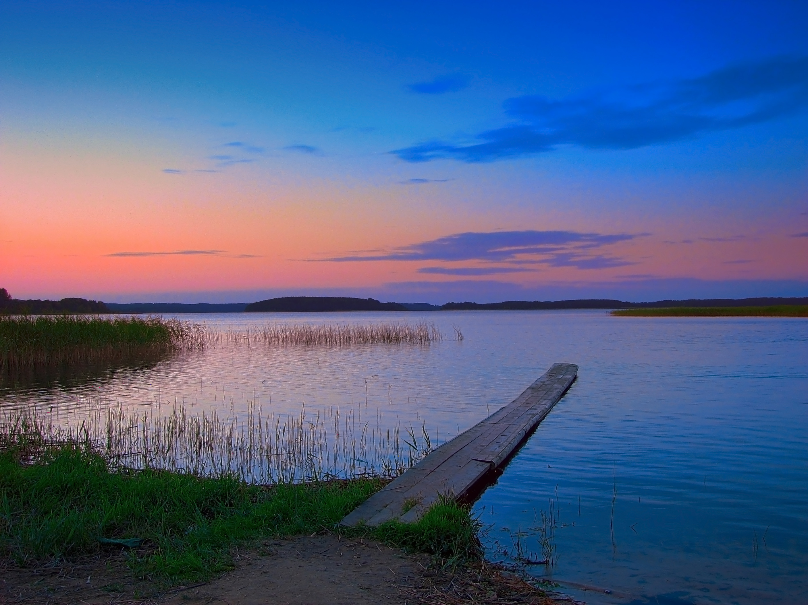 Sunset in Snudy lake, Belarus